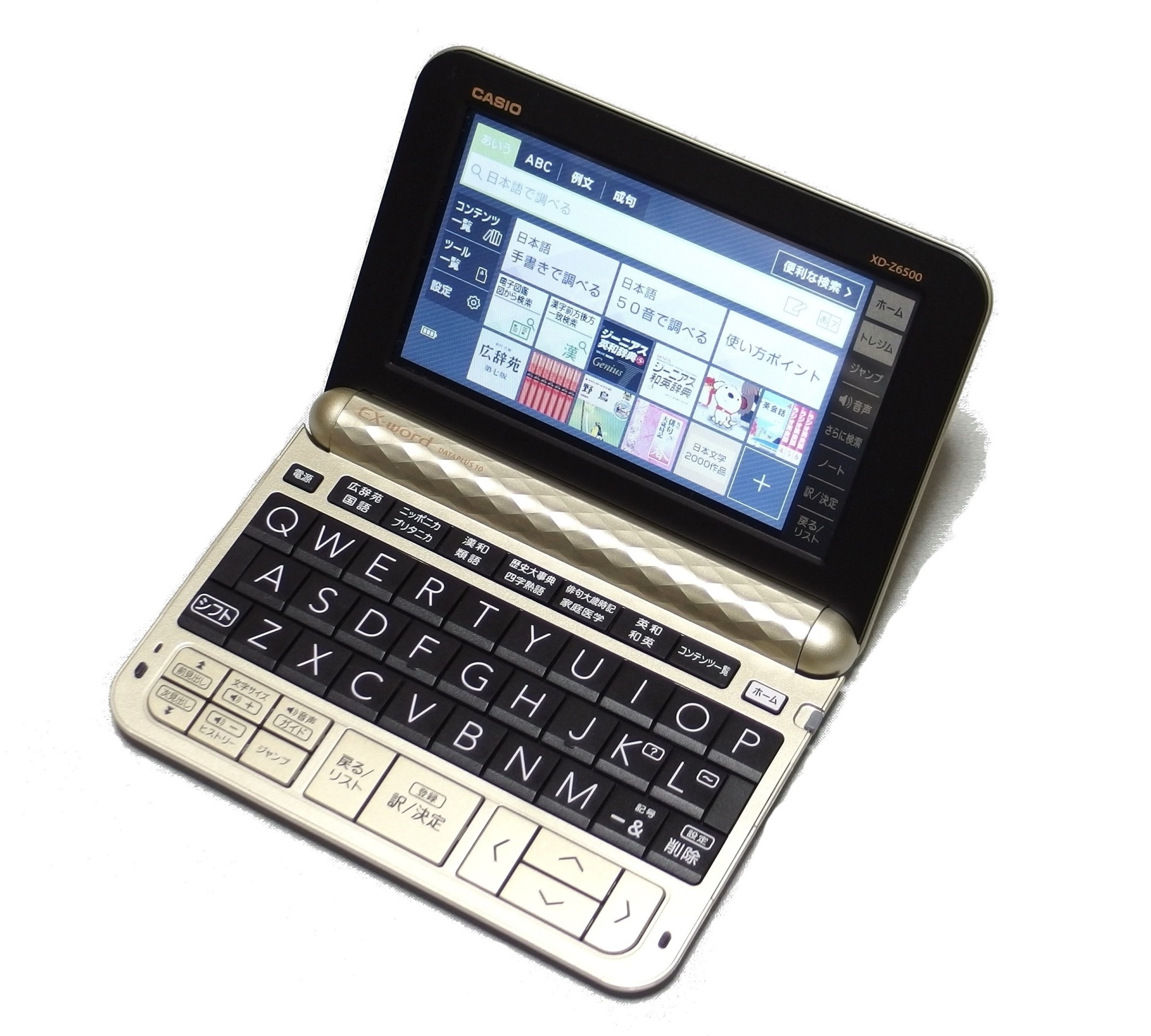 EX-word XD-Z6500, a Japanese IC dictionary, manufactured by Casio Computer in 2018.